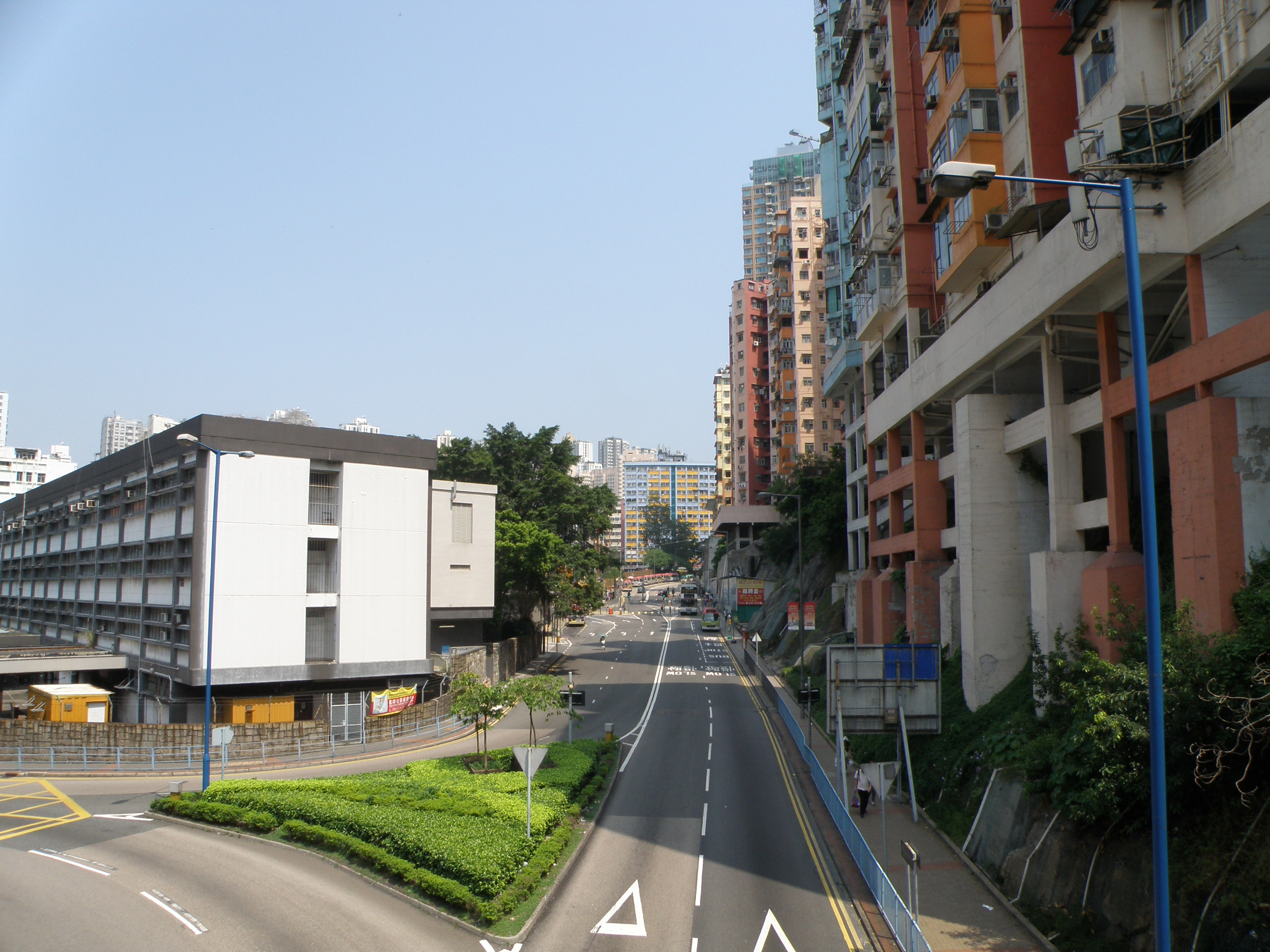 Hip Wo Street in Kwun Tong, Hong Kong.